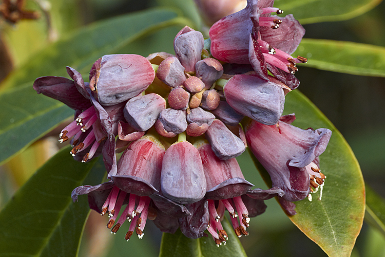 Plum-flowered Rhododendron (Rhododendron pruniflorum), an open, often rather leggy 1-1.5m high shrub found in northern Burma and nearby parts of India at elevations up to 3000m. The leaves have a slight blue tinge and the undersides have a coating fine, pale scales. As the name suggests, the small, waxy flowers are an unusual plum-purple-red shade.